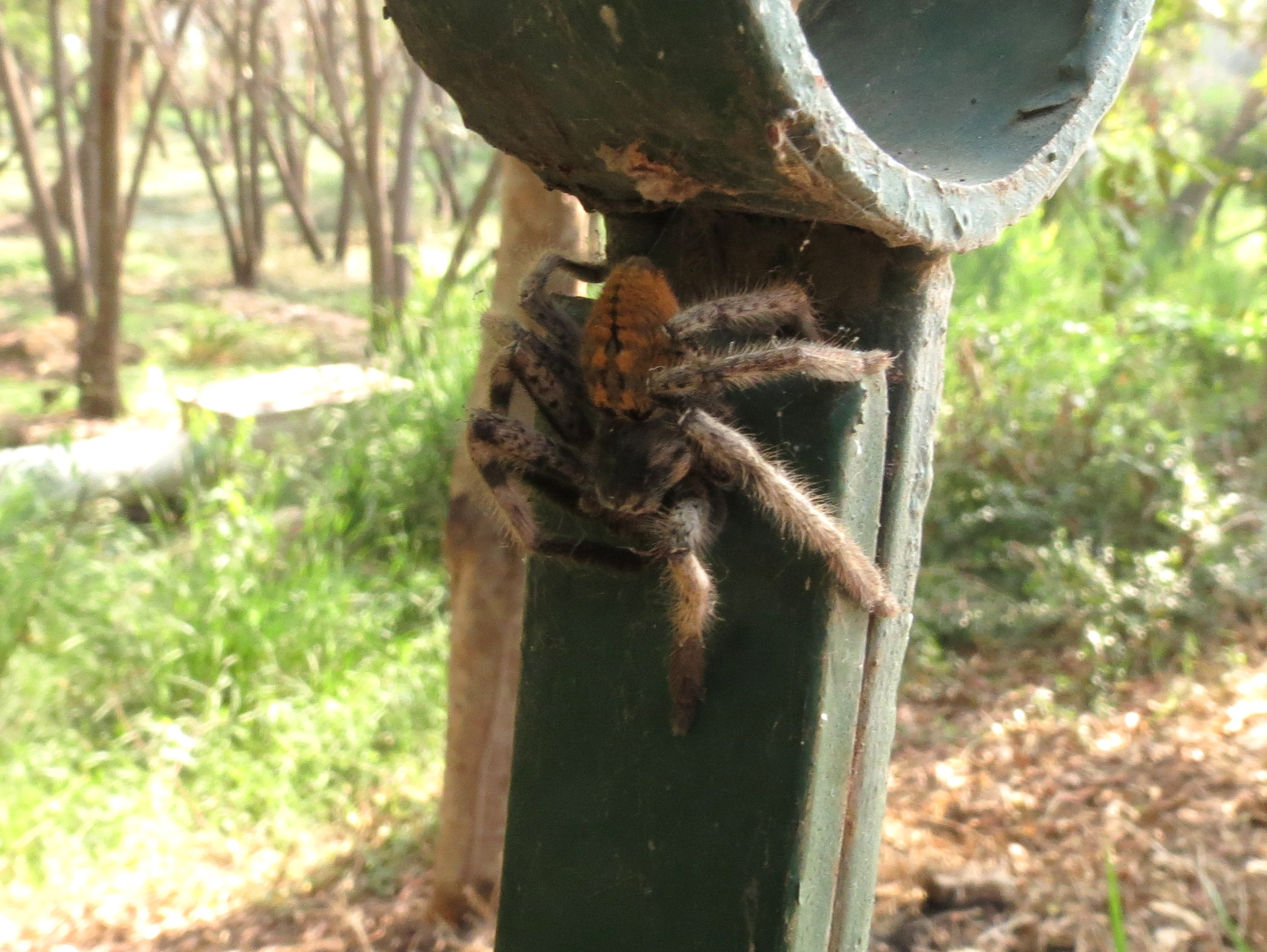 Thelcticopis sp seen in Kaikondrahalli lake in Bangalore